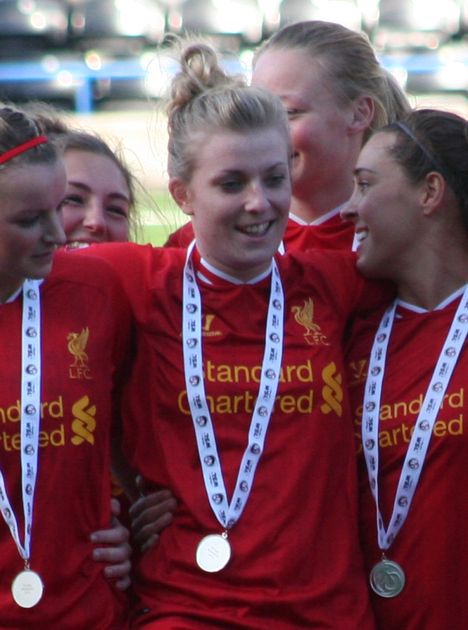 Liverpool L.F.C. - 2013 FA WSL Championship celebration